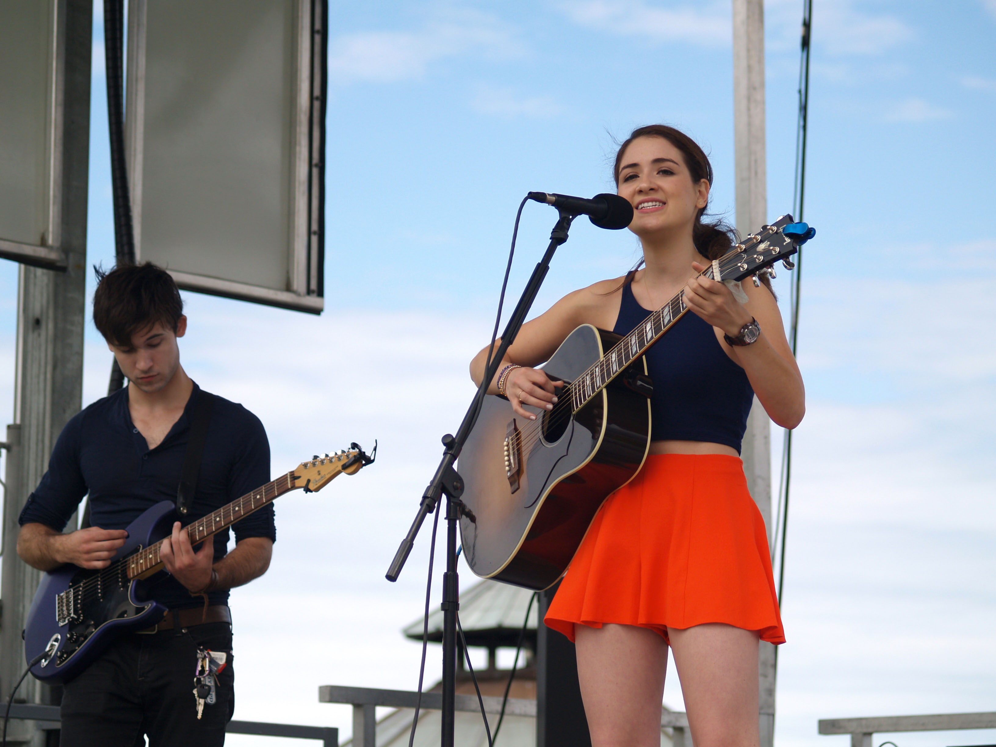 Actor/singers Allison Strong and Marrick Smith performing at the August 23, 2014 Lackawanna Music Festival at Pier A in Hoboken, New Jersey. This photo was created by Luigi Novi. It is not in the public domain, and use of this file outside of the licensing terms is a copyright violation.